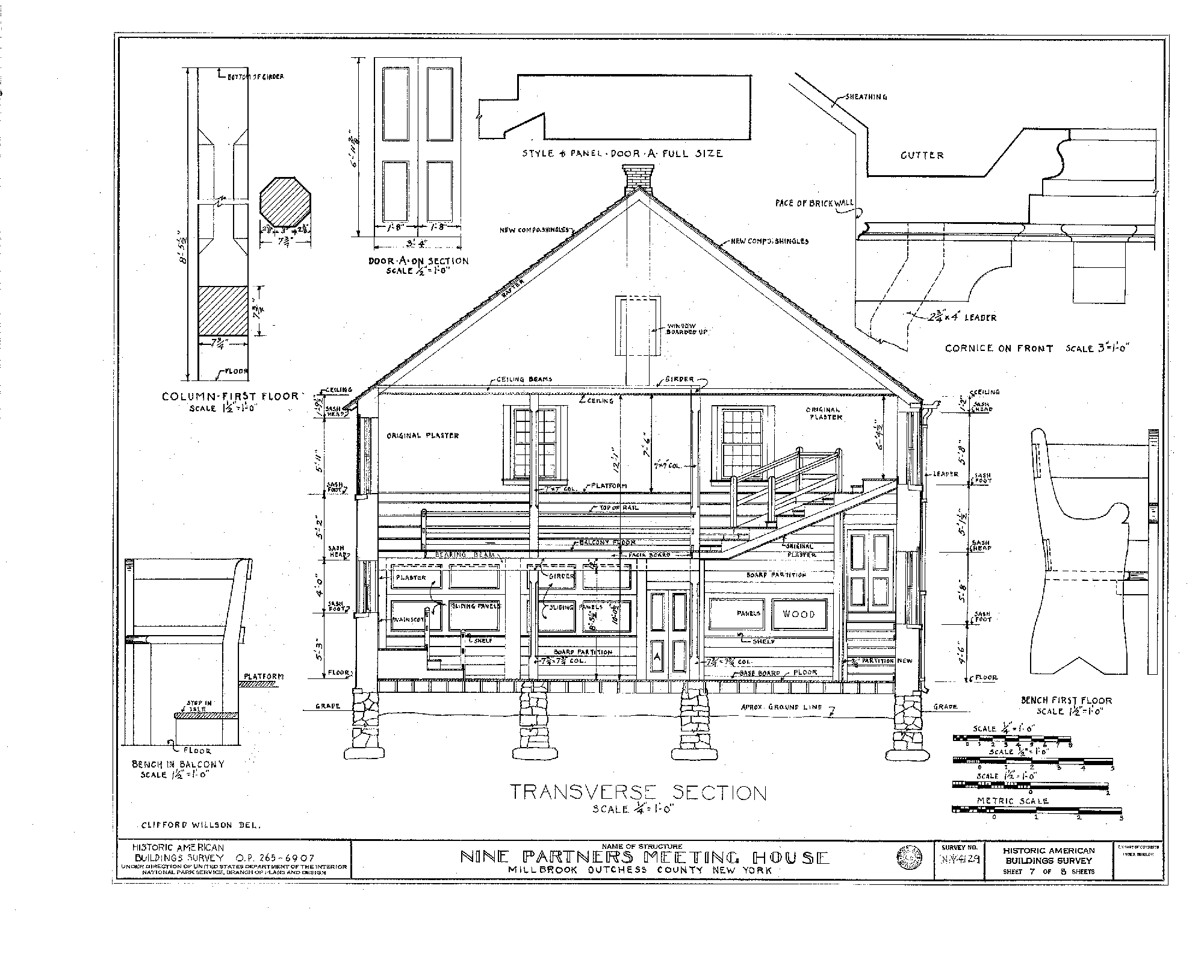 Nine Partners Meeting House sectional view, Survey number HABS NY-4129